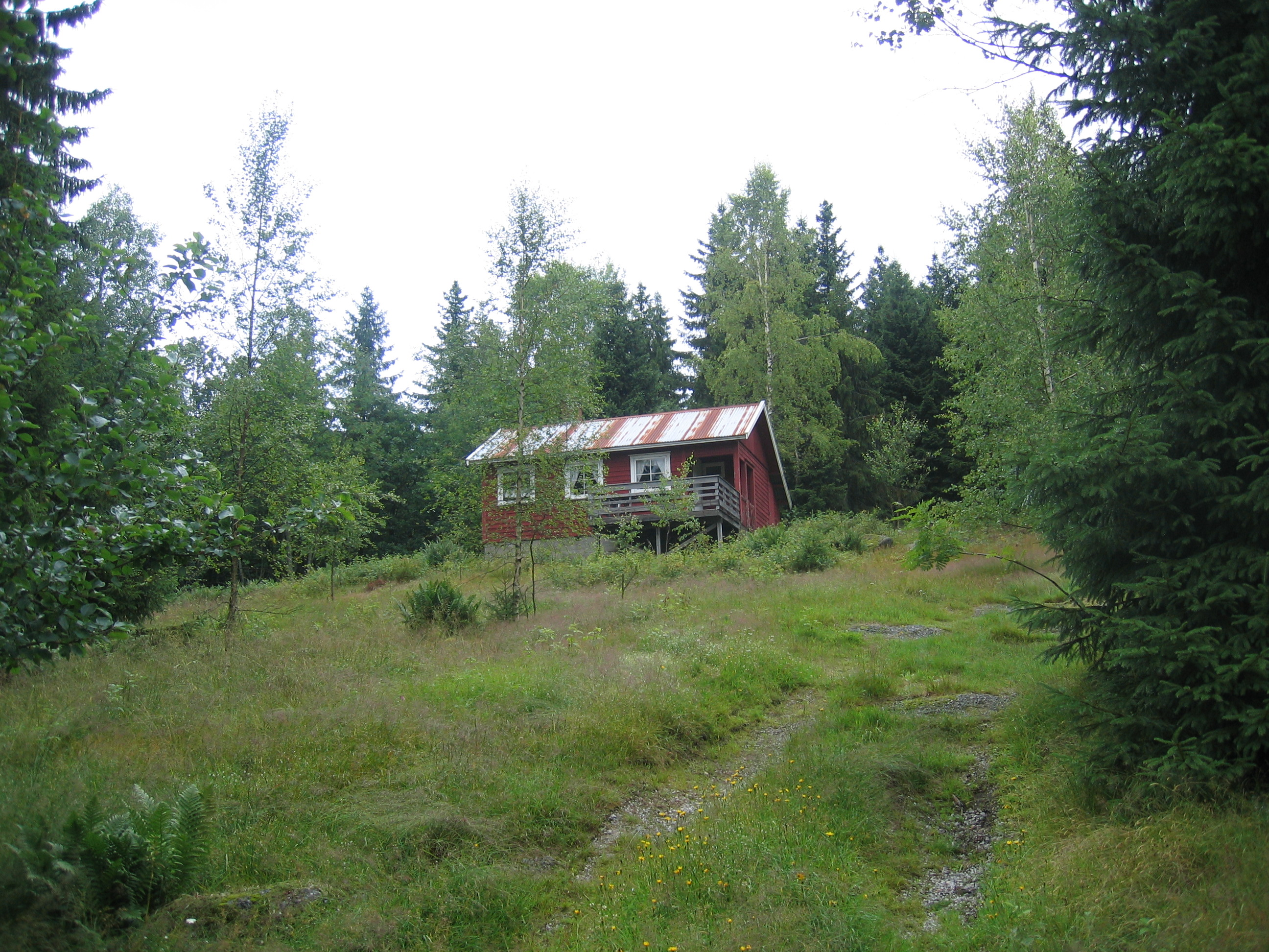 This area was a pasture for cows, in summer, probably about 1950 and earlier. It was an open area, used as a nature pasture. This use of the area has end. The wood is - slowly - occuping the earlier open area, bit for bit. The reason is change in Norwegian agriculture. The house was used by the milk maid. Larvik kommune i Vestfold.